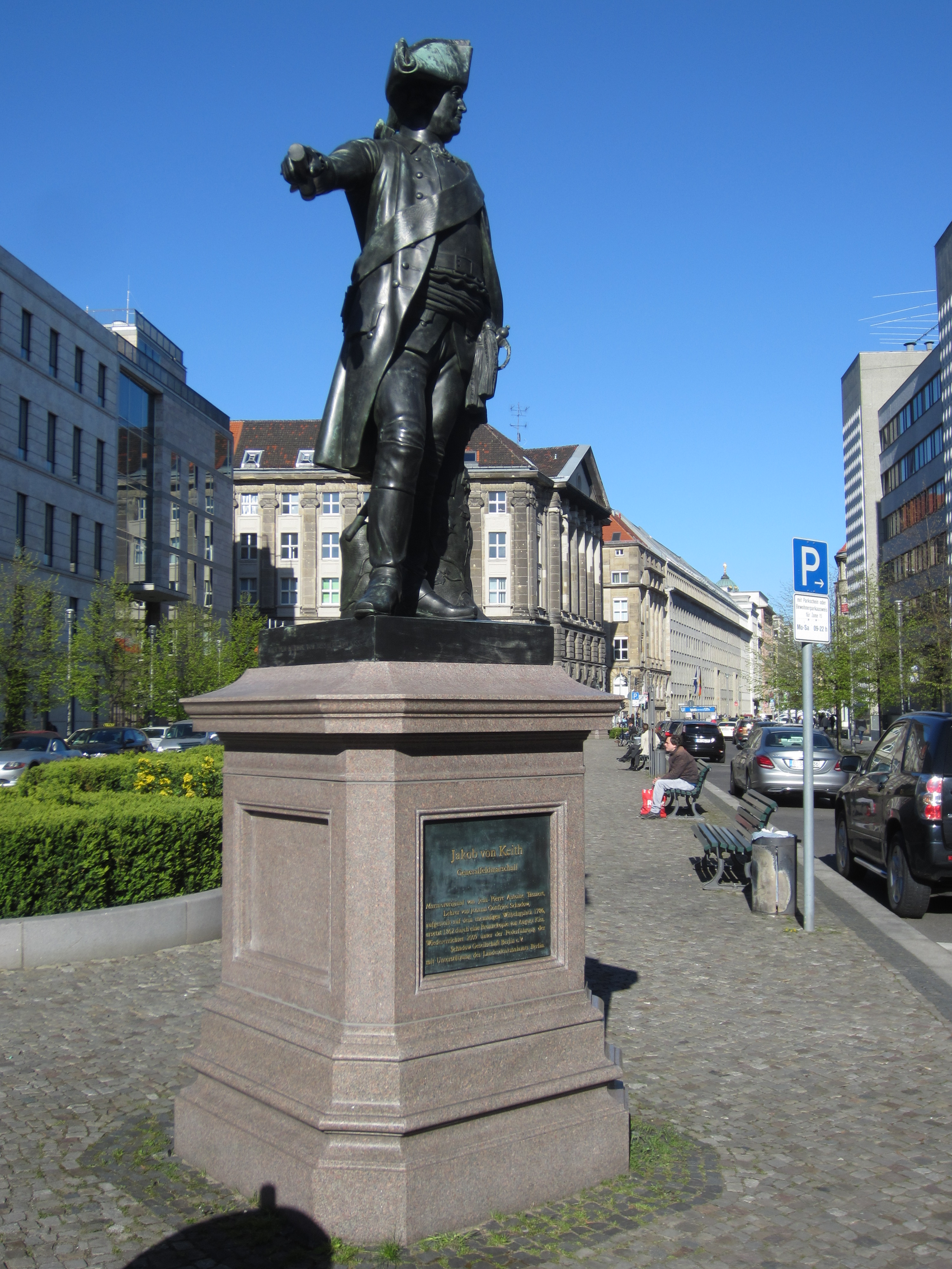 Statue of James Francis Edward Keith, Berlin, Germany (April 2016)